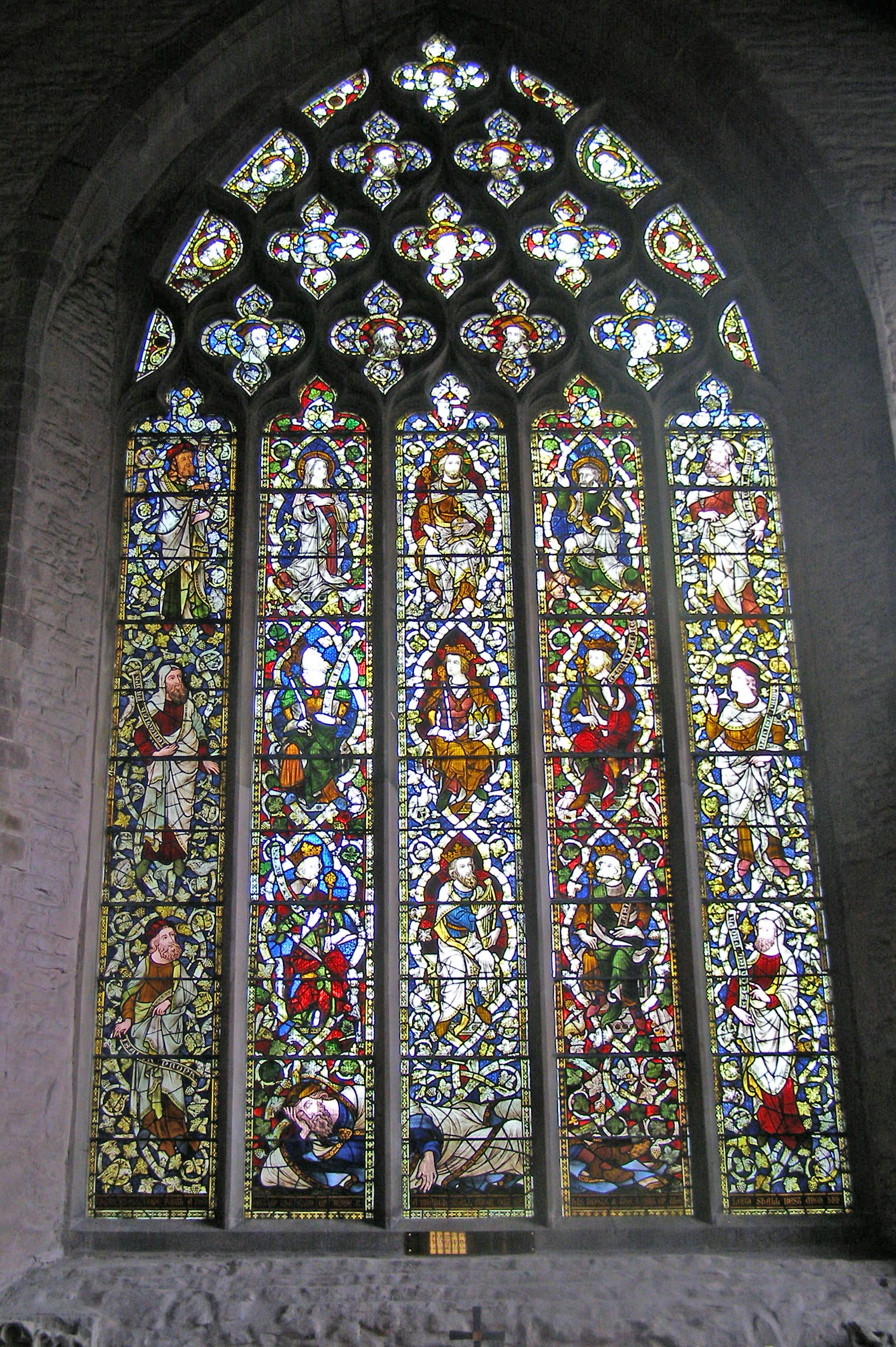 subject:st laurence church, window, ludlow, England